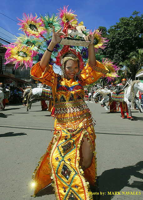 Subanen lead dancer carrying St. james image dance during colorful street dancing competition on KINABAYO Festival in Dapitan City, Zamboanga Norte